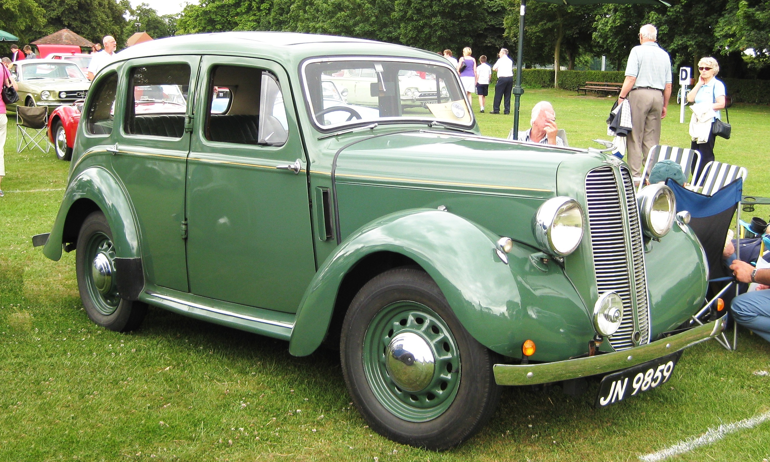 Hillman Minx at Maldon